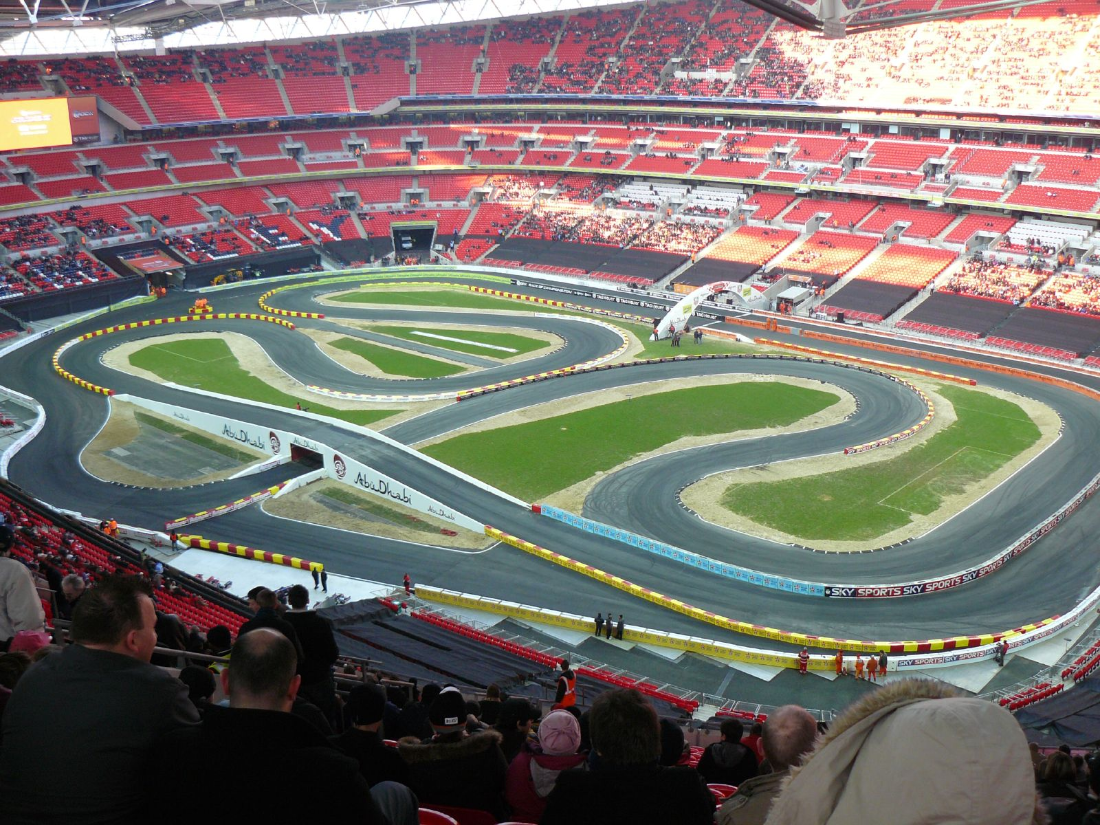 2007 Race of Champions at Wembley Stadium.